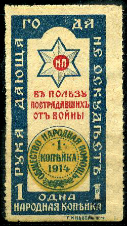 Revenue stamp of voluntary gathering in favour of suffered from war, the Society the popular help, 1914